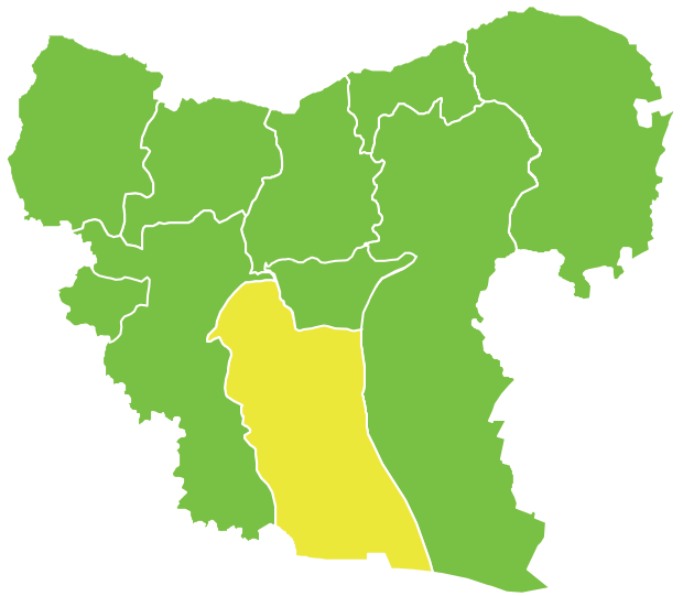 Safirah District, Syrian governorate of Aleppo Governorate.